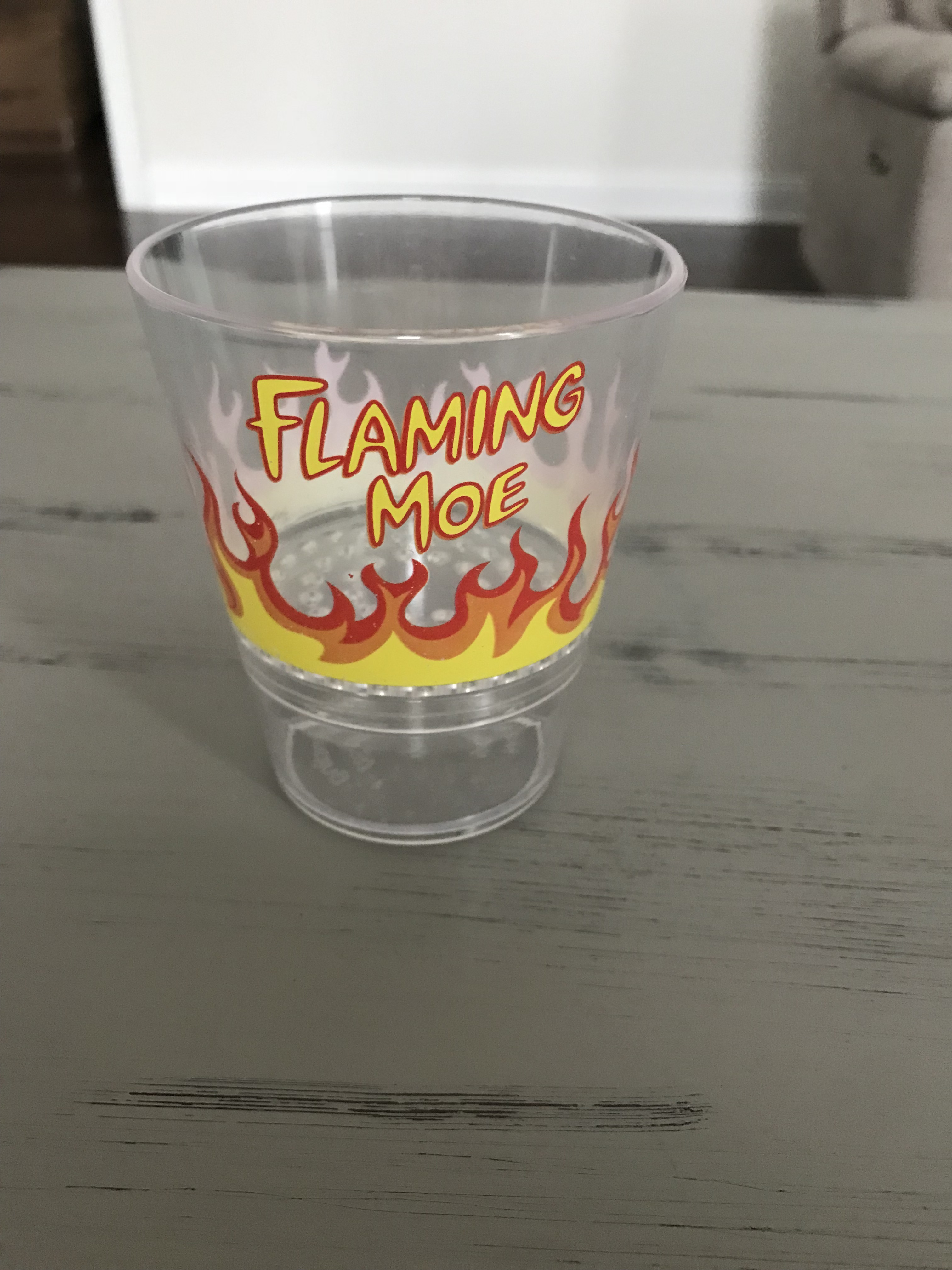 A Flaming Moe glass used at Universal Studios Florida.